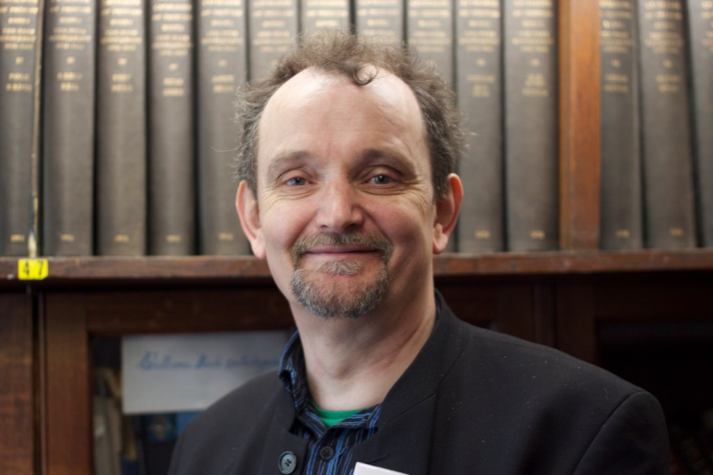 Roger Bamkin at WikiConference UK 2012.